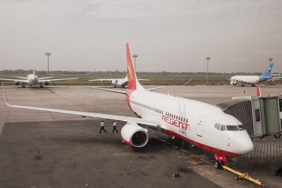 Regent Airways Boeing 737-700 parked at at Shahjalal International Airport boarding gate